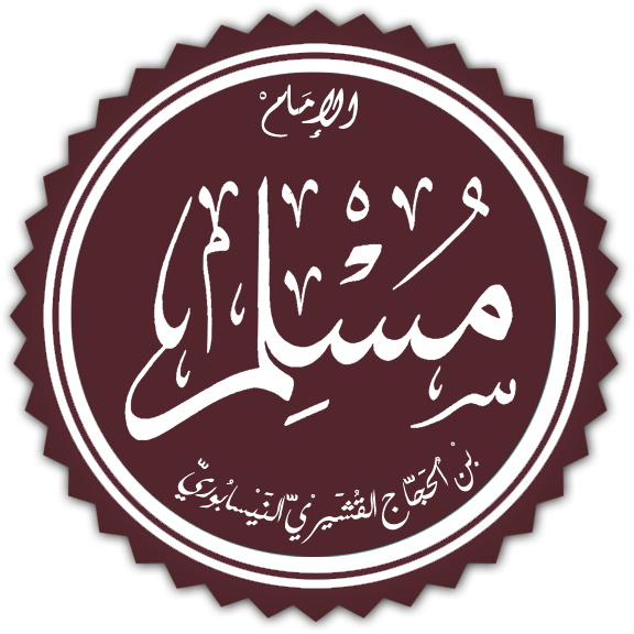 Calligraphy of Imam Muslim Bin Al-Hajjaj's name